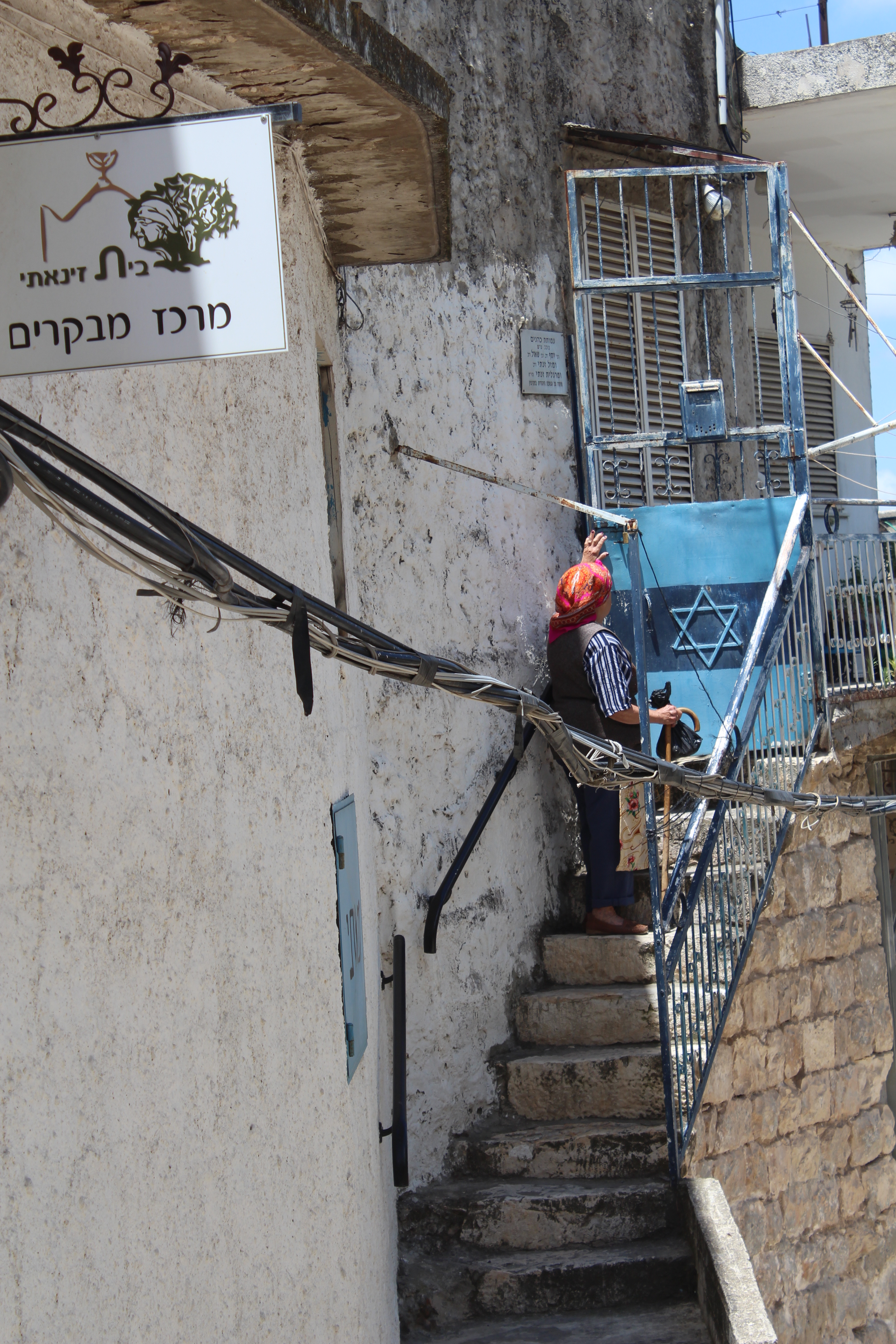 Margalith Zinati, Israeli Actress from Pequi'in This image was taken as part of the Elef Millim project trip to Beit Zinati, in Peki'in which was held on Friday, 10th June 2016. To view all images uploaded as part of the Elef Millim Project